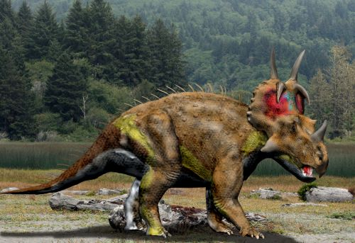 Spinops